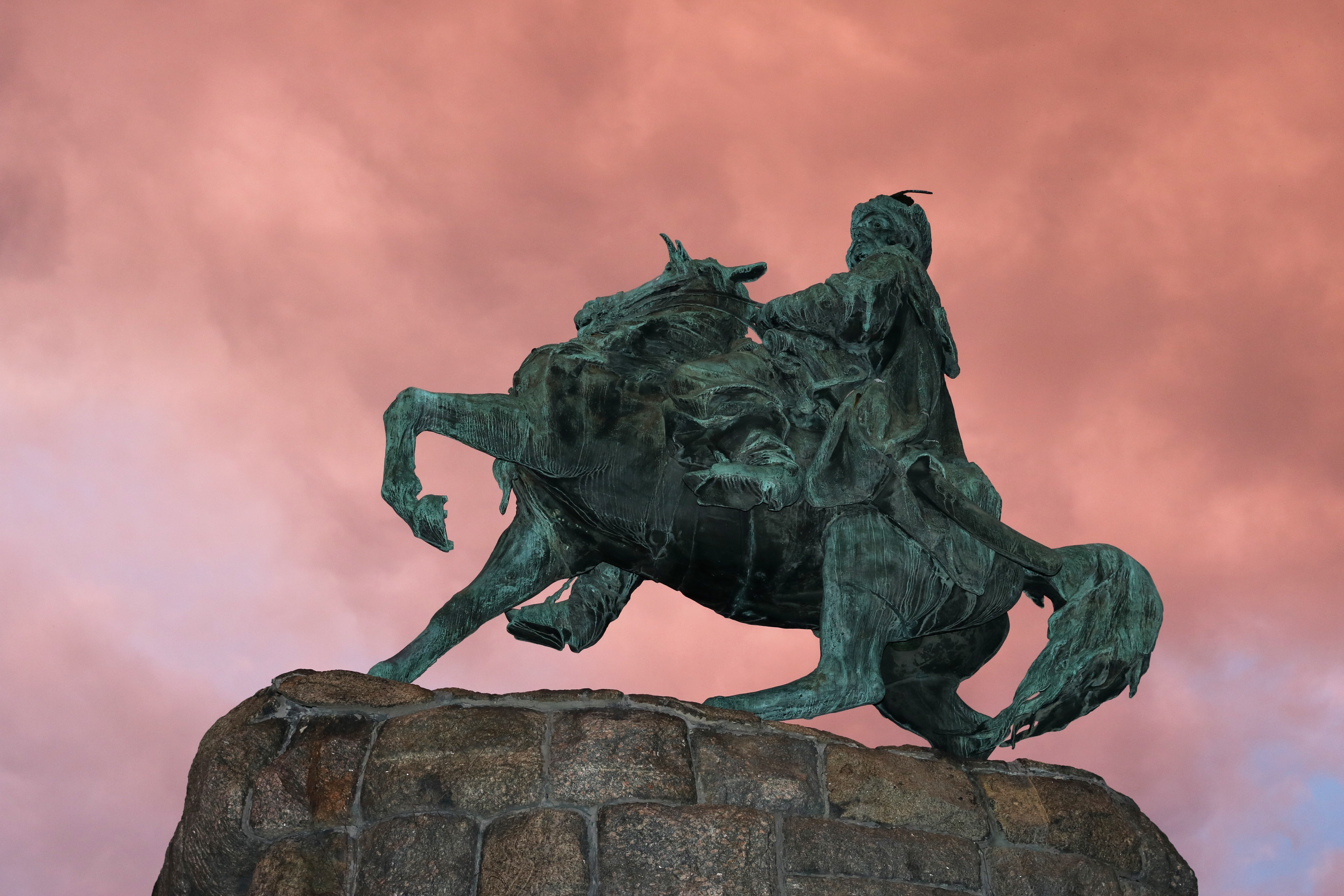 The Bohdan Khmelnytsky Monument in Kiev. This monument created by Mikhail Mikeshin in 1888.